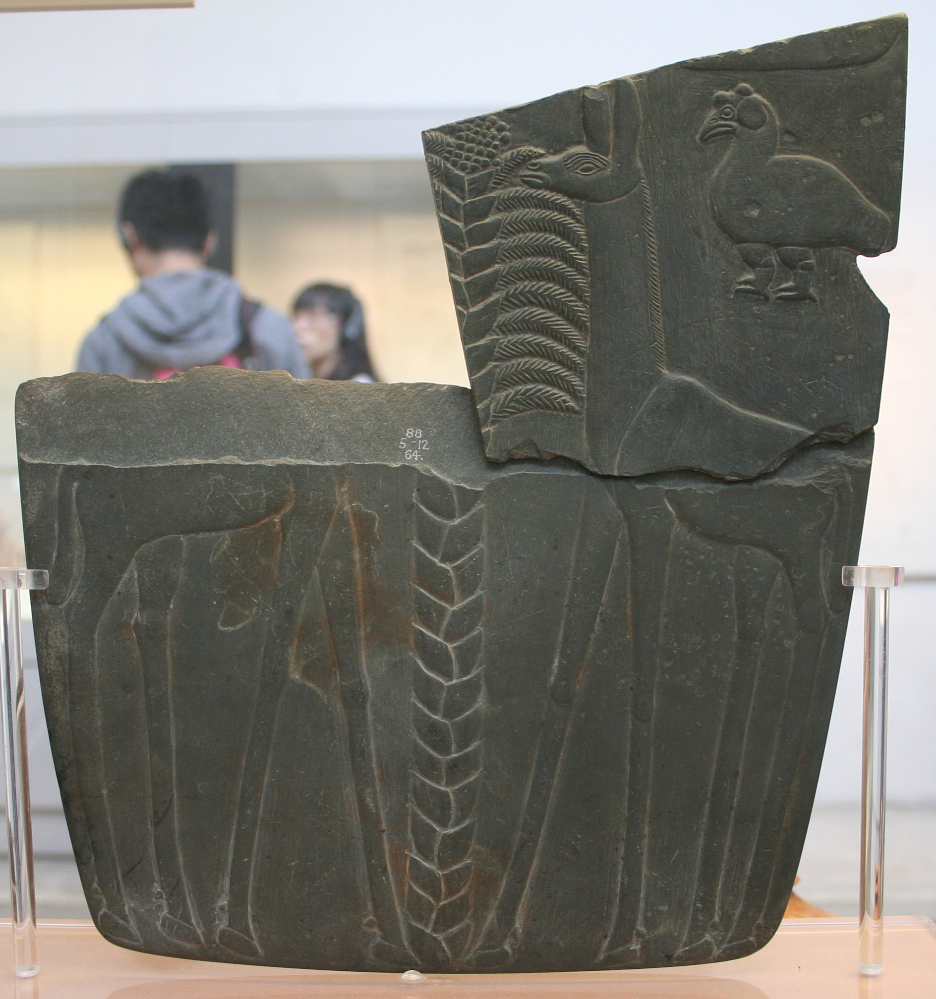 British Museum, London